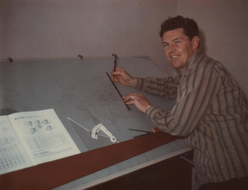 John Joyce, Bowin Cars - Personal Collection